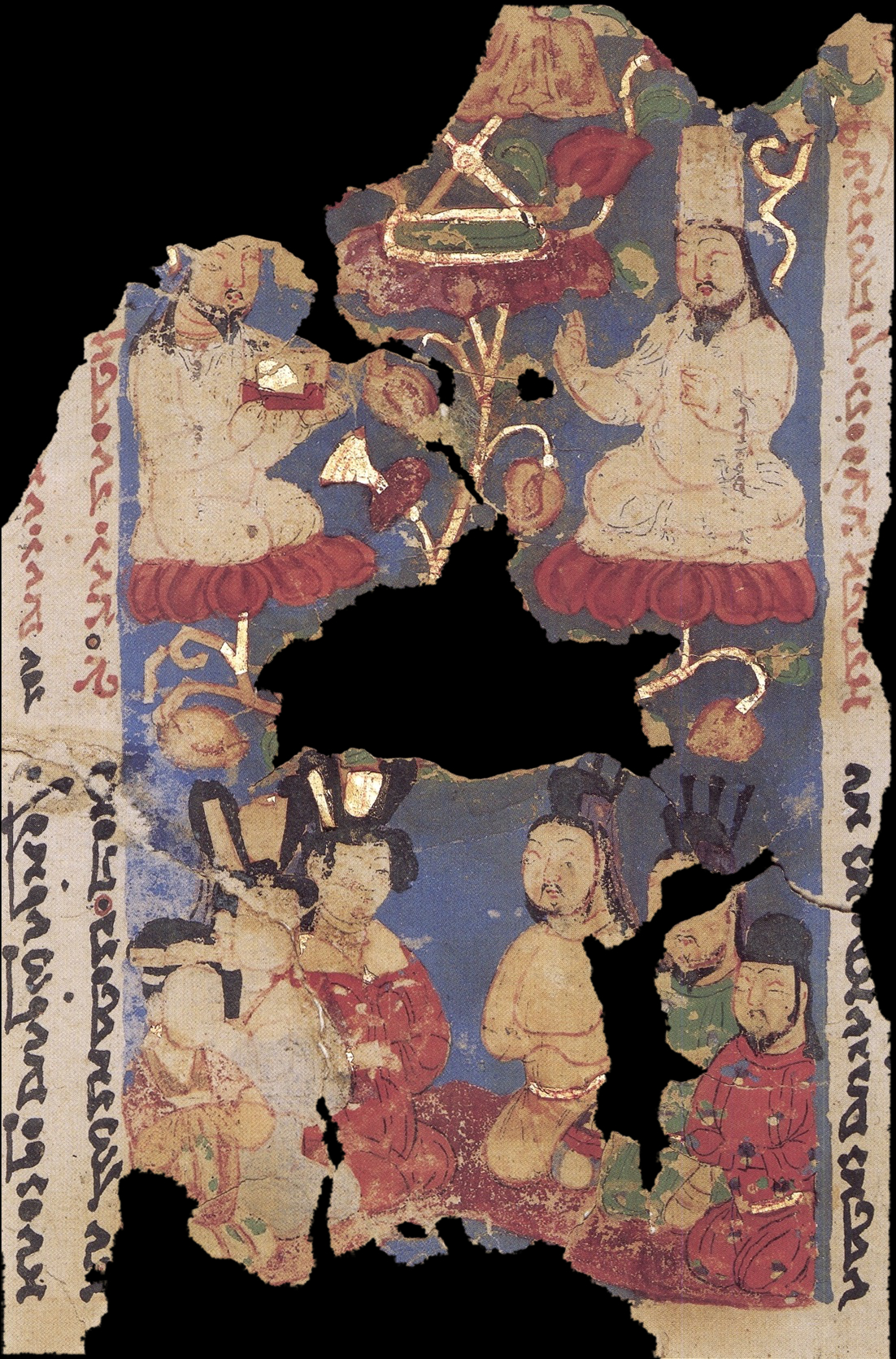 Uyghur Manichaean “Sermon Scene”, shown from picture-viewing direction. Leaf from a Manichaean book (MIK III 8259 folio 1 recto), detail with intracolumnar book painting. Museum für Indische Kunst, Berlin.